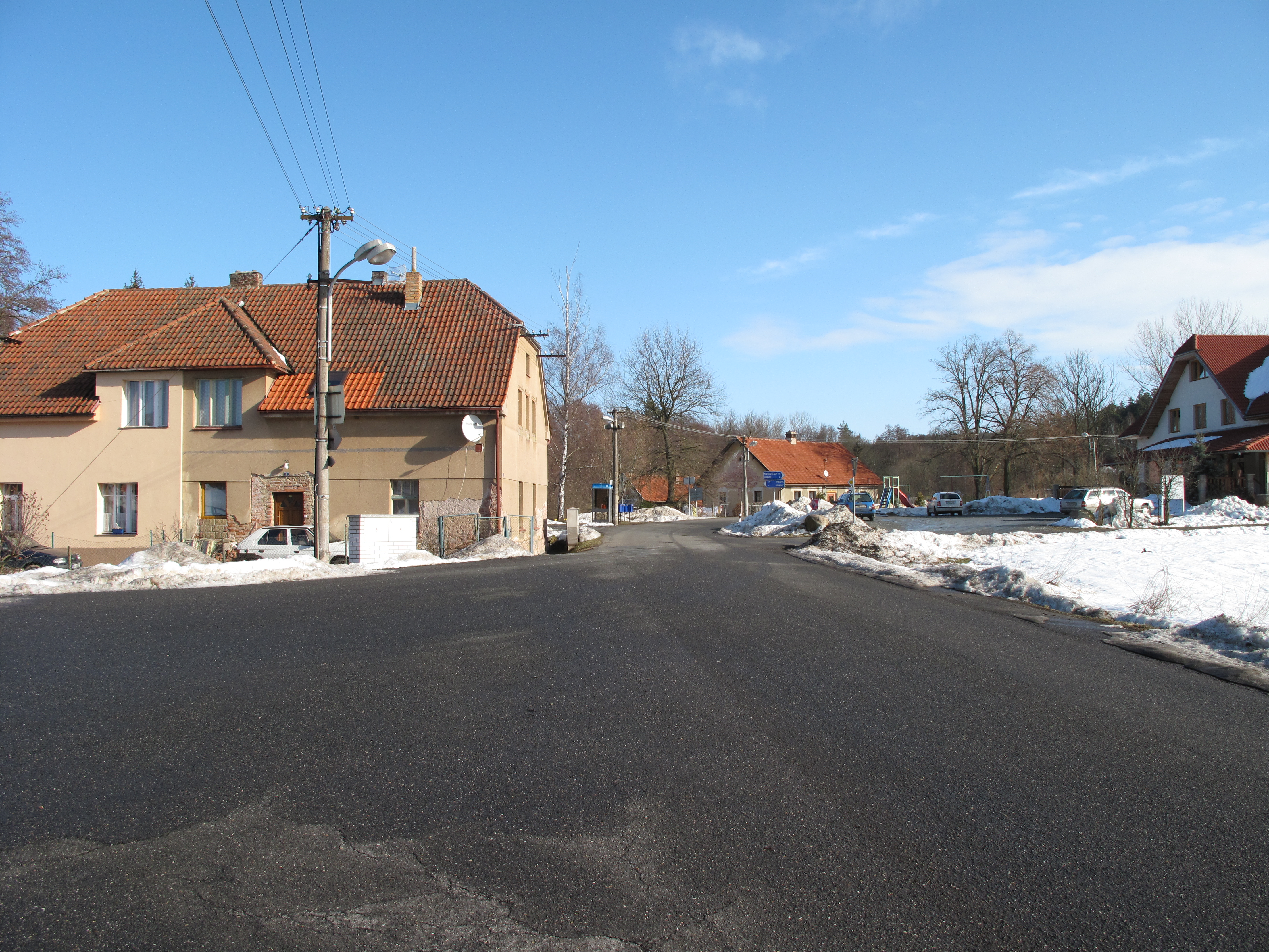 Hradec village (Stříbrná Skalice) - crossroads, Prague-East District, Czech Republic. This photograph was taken within the scope of the 'Czech Municipalities Photographs' grant.